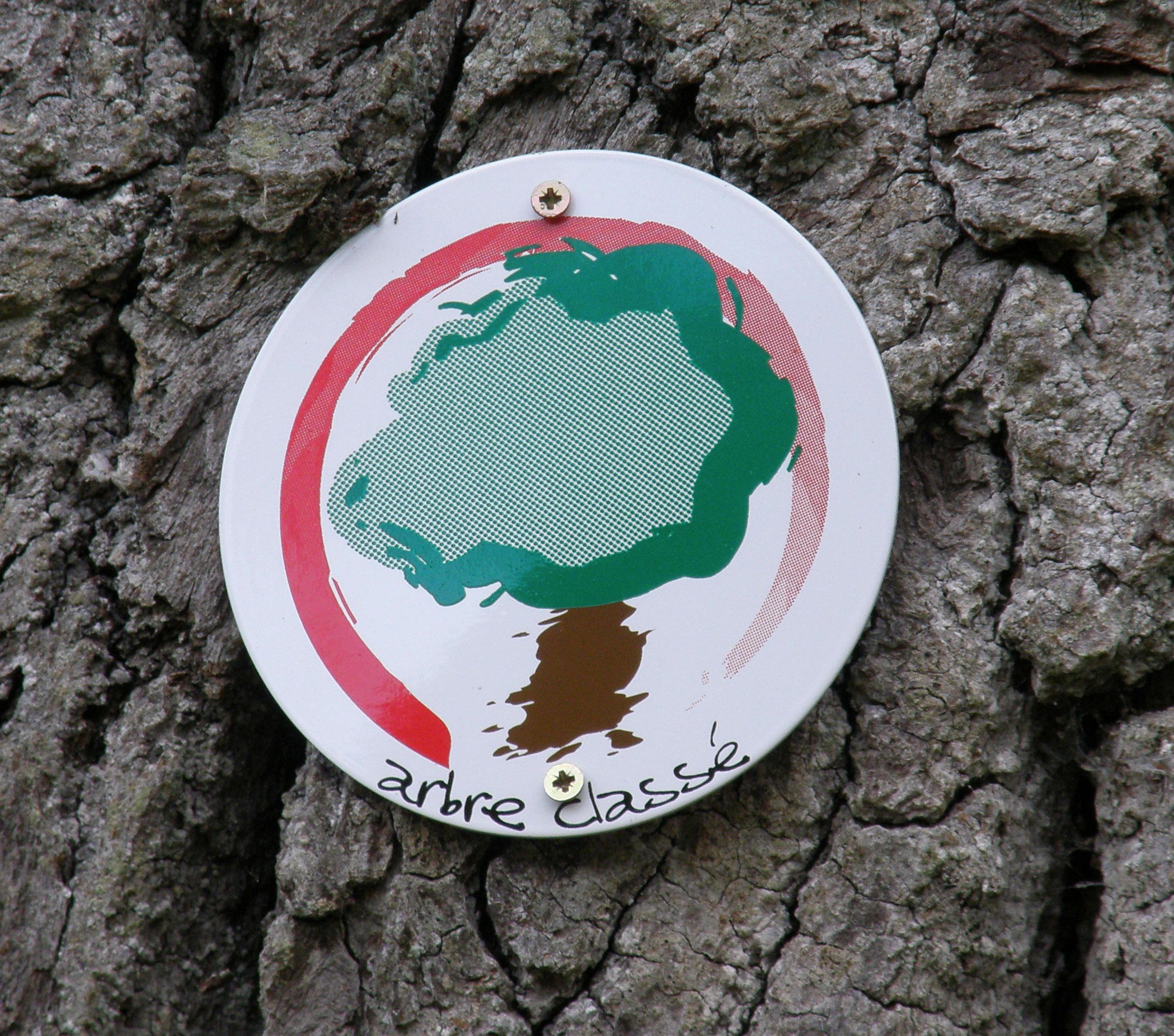 Label on the Remarkable Oak at Hersberg, Luxembourg